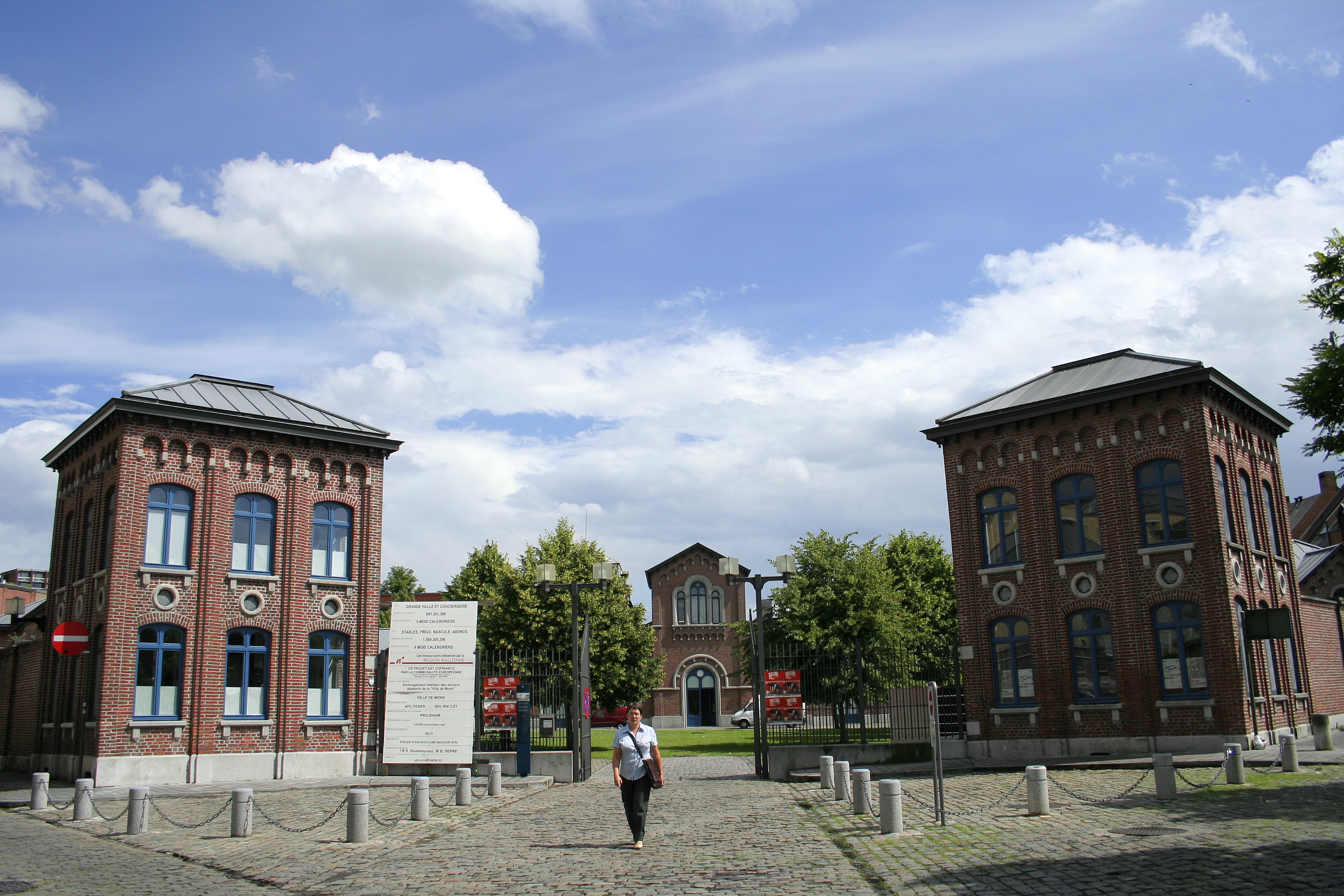 Mons (Belgium), Place de la Grande Pêcherie. – the old slaughter houses (1854-1855).